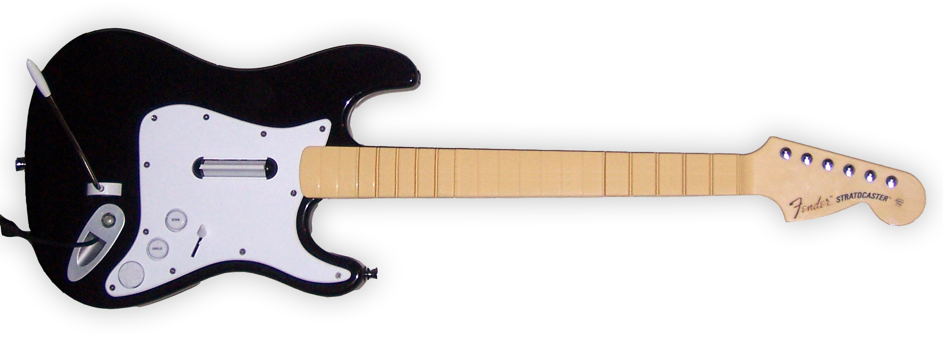 Self-taken photo of Rock Band Fender Stratocaster guitar controller. I release it into the public domain.